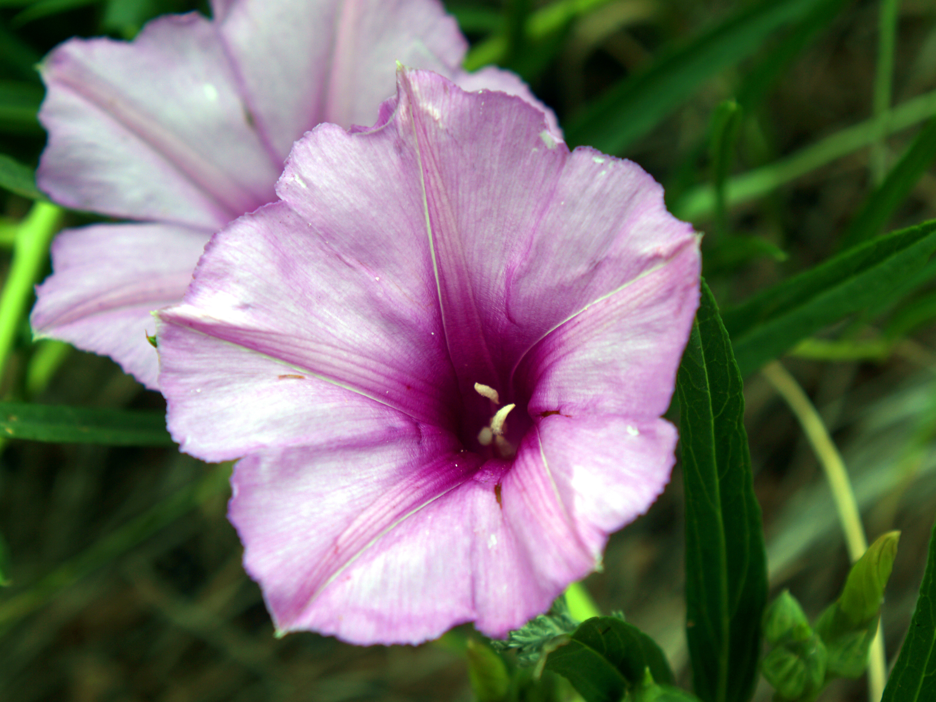 Ipomoea leptophylla at Wind Cave National Park, South Dakota, USA